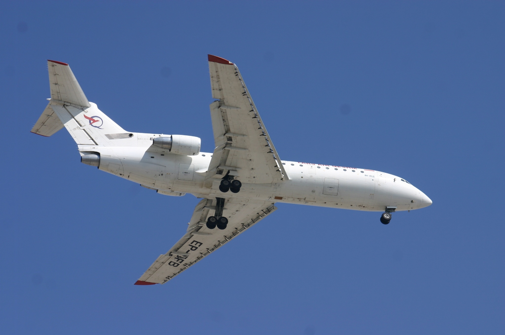 At Dubai